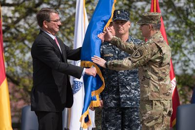 Defense Secretary Ash Carter presents the U.S. European Command flag to Eucom’s new commander, Army Gen. Curtis M. Scaparrotti, during a change of command ceremony in Stuttgart, Germany, May 3, 2016. DoD photo by D. Myles Cullen